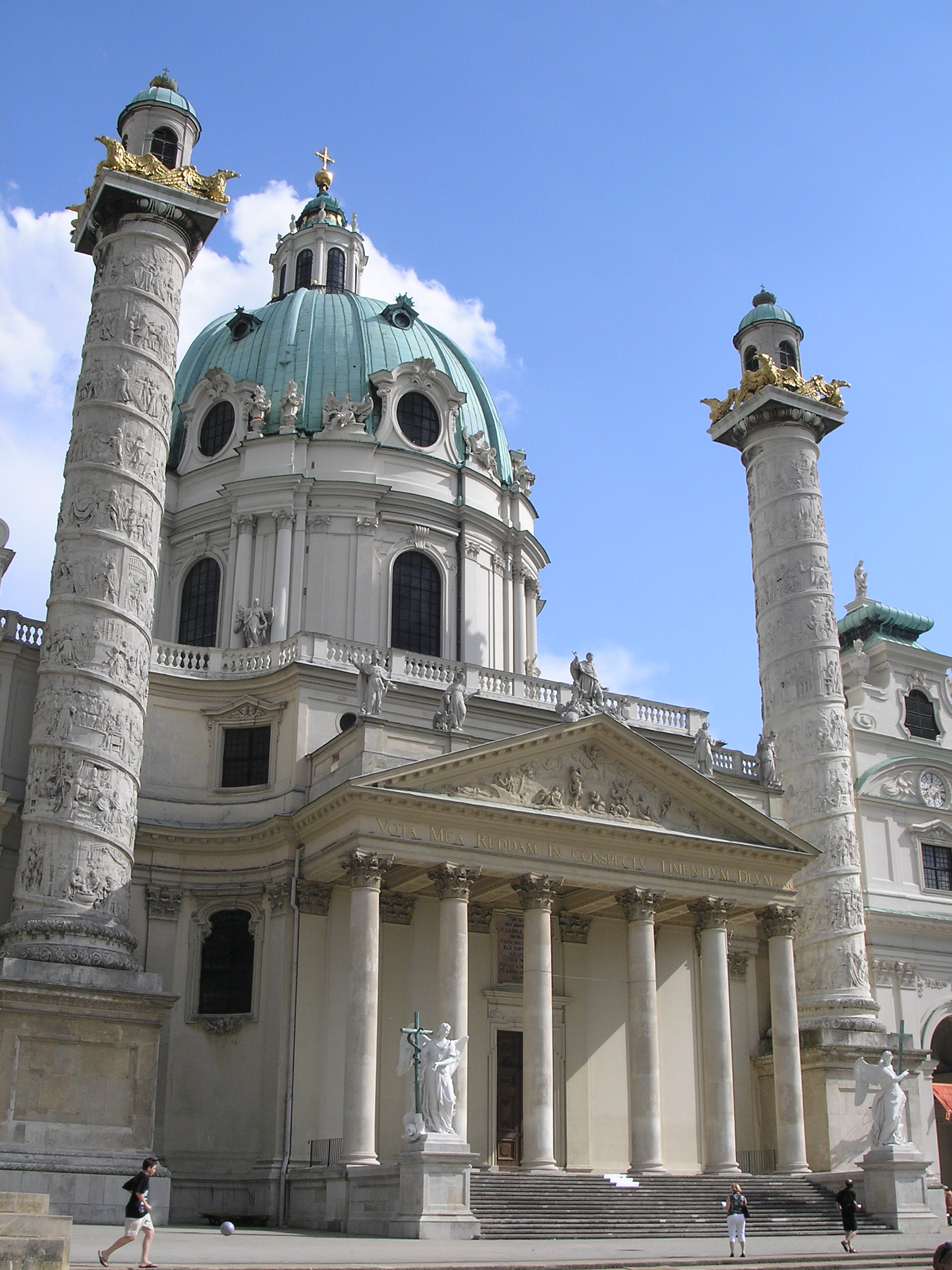 Austria, Vienna, St. Charles's Church